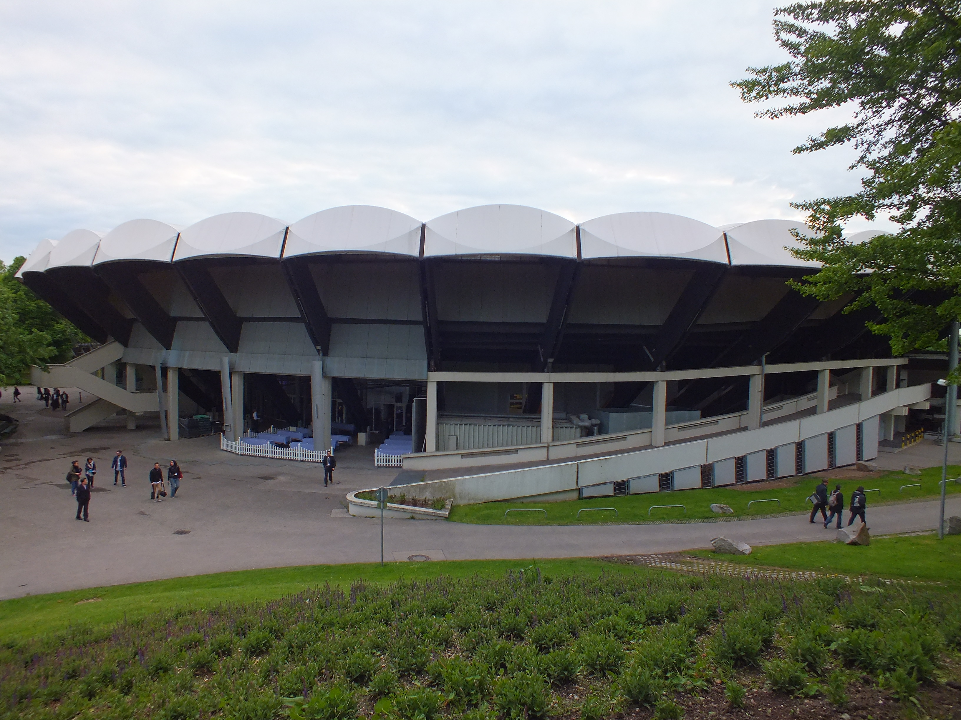 Event-Halle in Munich, Olympiapark